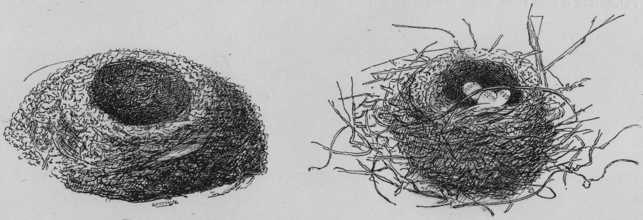 South Island Tomtit (Petroica macrocephala macrocephala) nests.